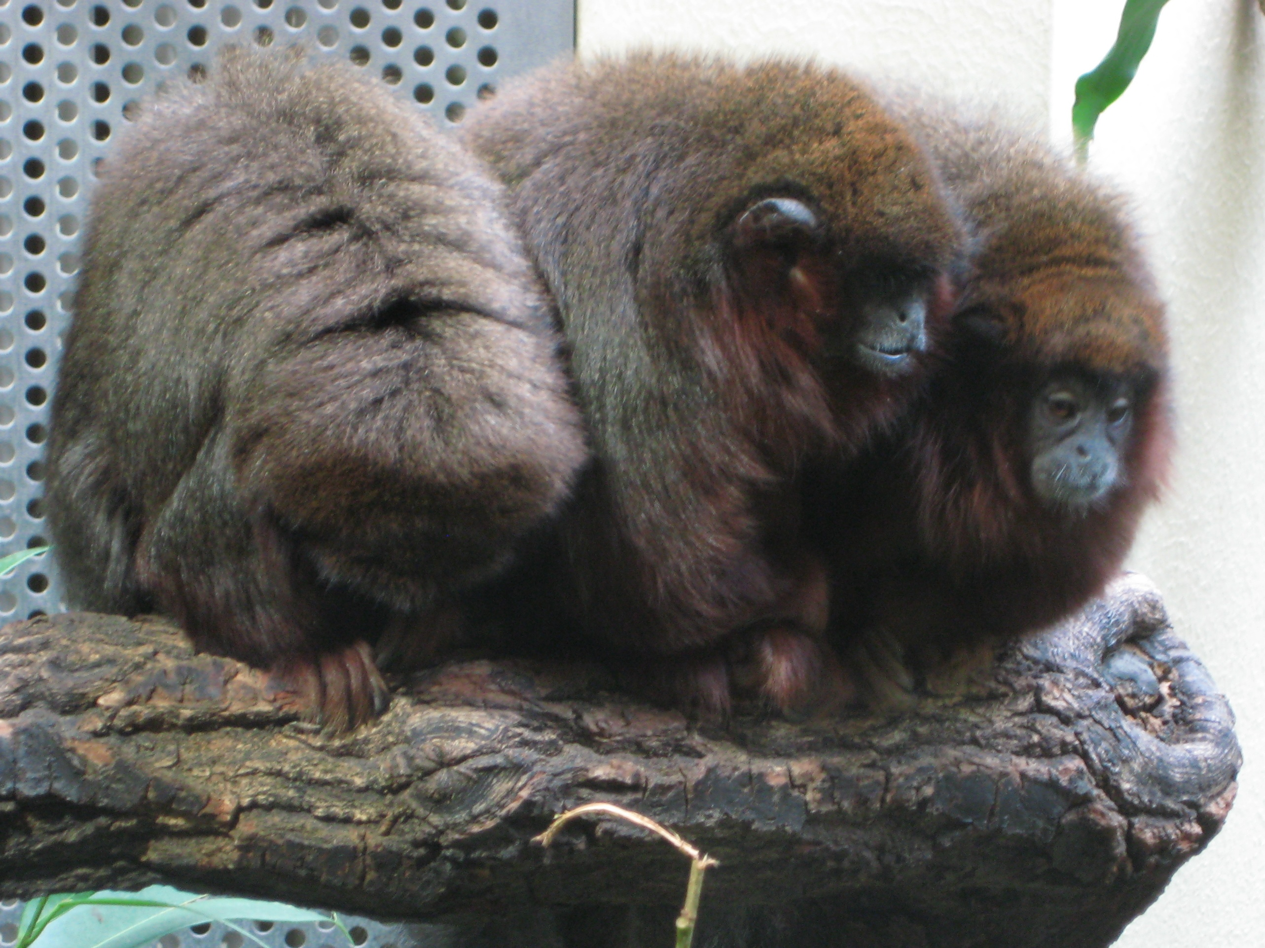 Titis at the Zoo of Berlin